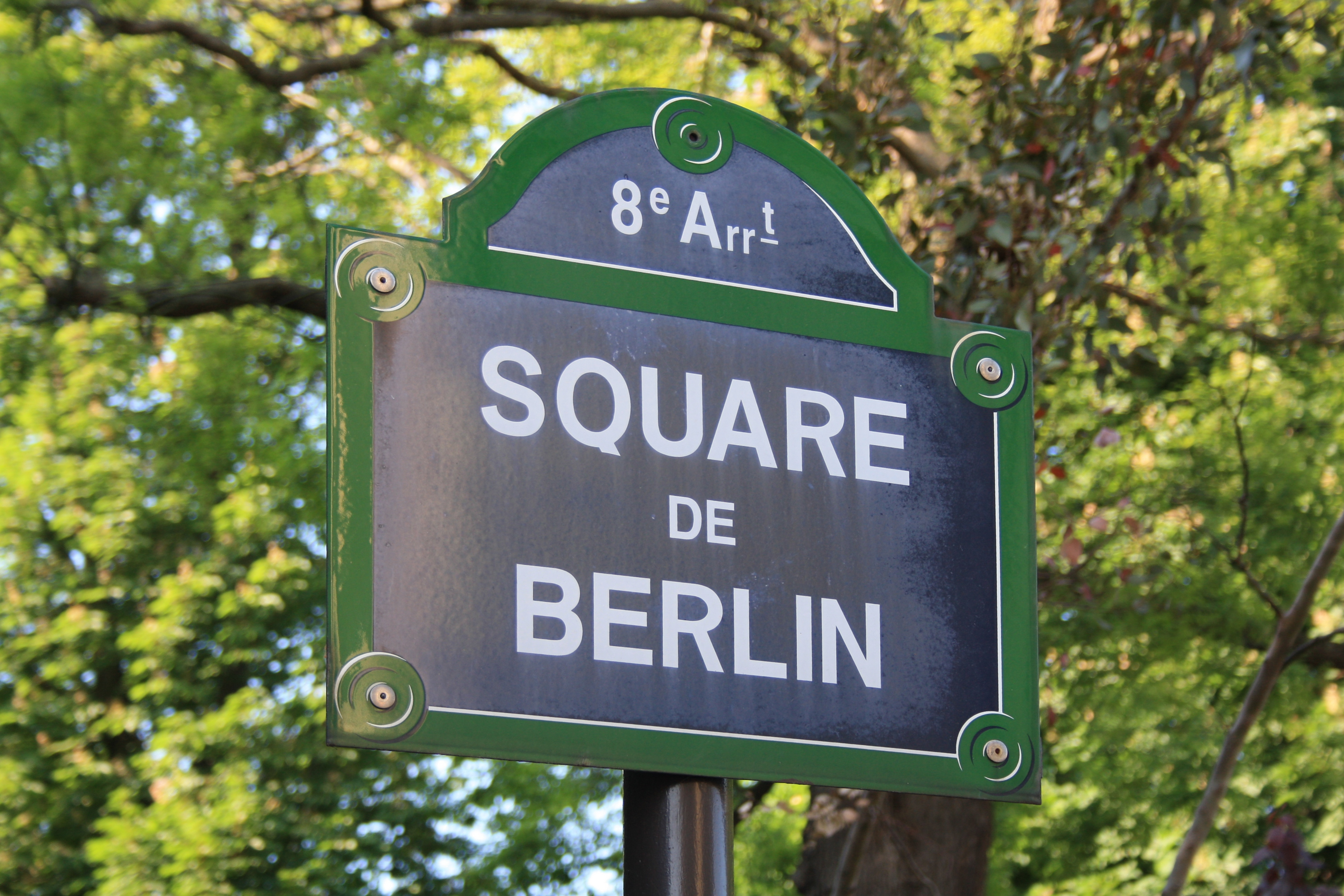 Square de Berlin. Monument commemorating the fall of the Berlin Wall on November, the 9th 1989 in Paris, France